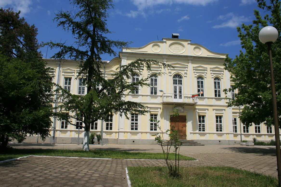 High School "Cyril and Methodius" in Kazanlak, Bulgaria